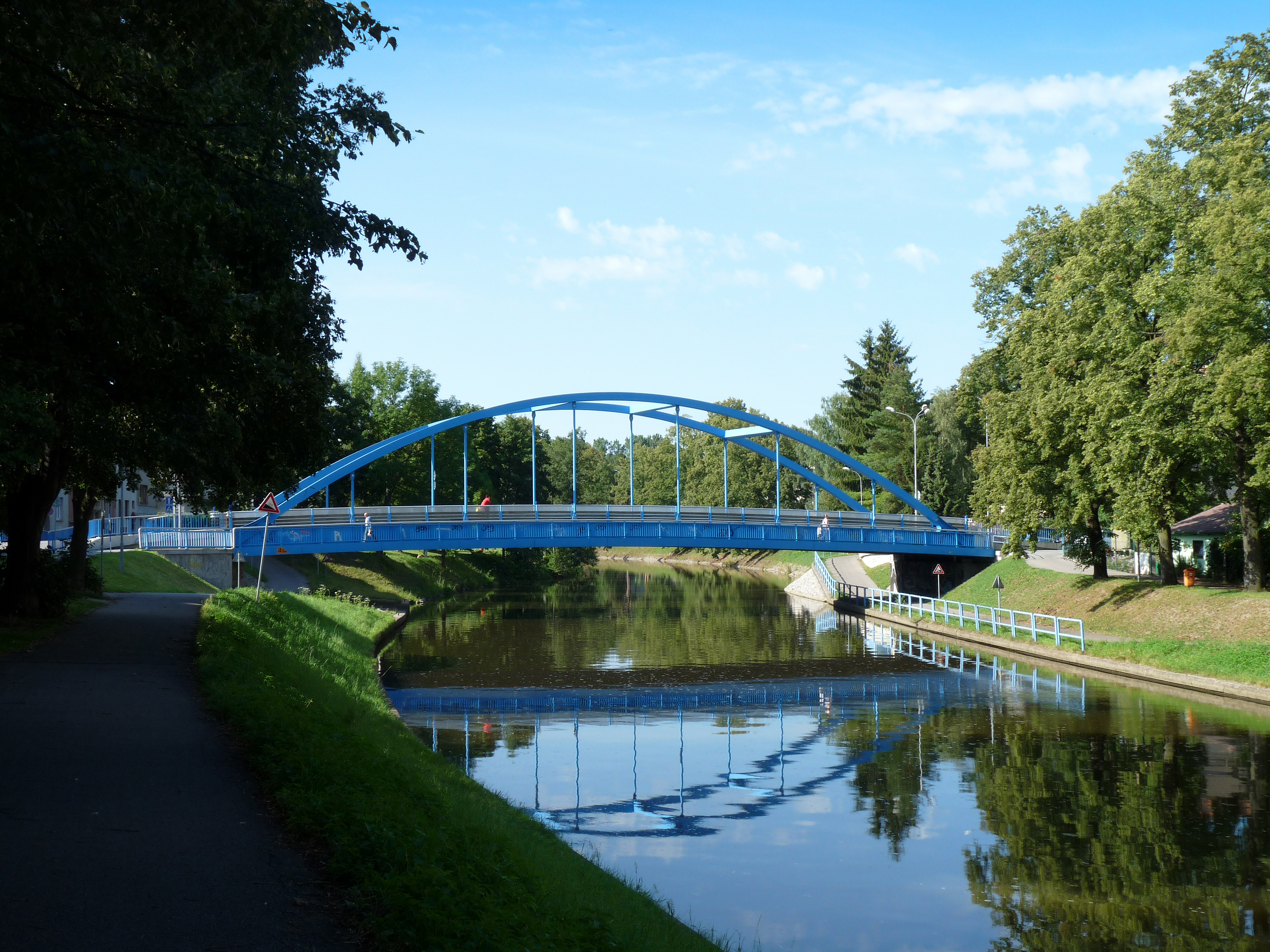 Modrý most (Blue Bridge) over the Malše river in České Budějovice, Czech Republic. Česky: Modrý most přes Malši v České Budějovice přes Malši.